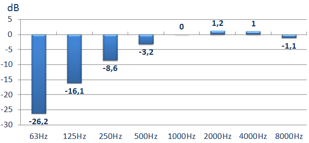 Ponderation A